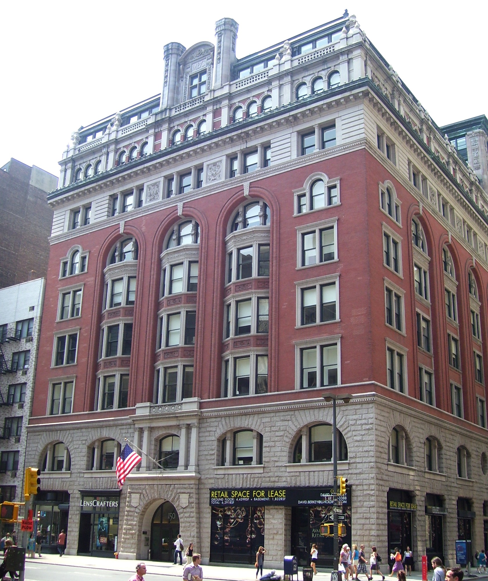 150 Fifth Avenue at East 20th Street in the Flatiron District of Manhattan, New York City, was built between 1888 and 1890, designed by Edward Hale Kendall. The Romanesque Revival building was originally the Methodist Book Concern, with printing presses, offices, and a chapel, and "MBC" can still be seen on the crown. There were so many religious institutions along this part of Fifth Avenue between 16th and 23rd Streets at the turn of the 20th century that it came to be known as "Paternoster Row". A similiar cluster of religious charities, some of which are still there, centered around 22nd Street and Fourth Avenue (which is now Park Avenue South).